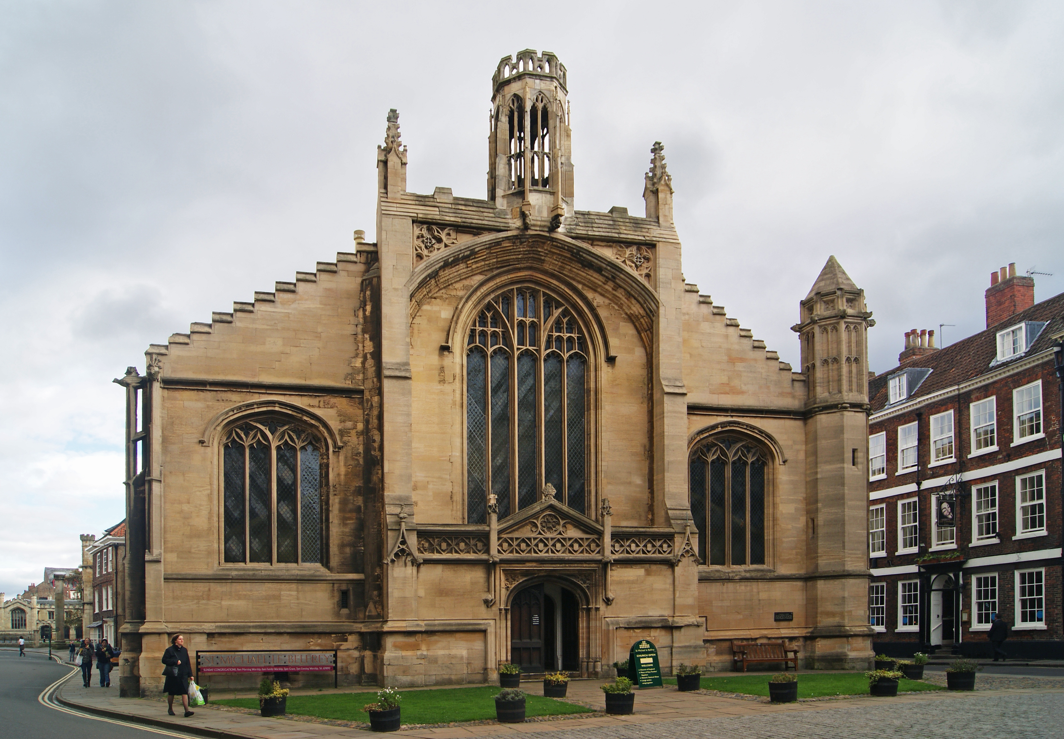 St Michael le Belfrey parish church, High Petergate, York, England, seen from the northwest